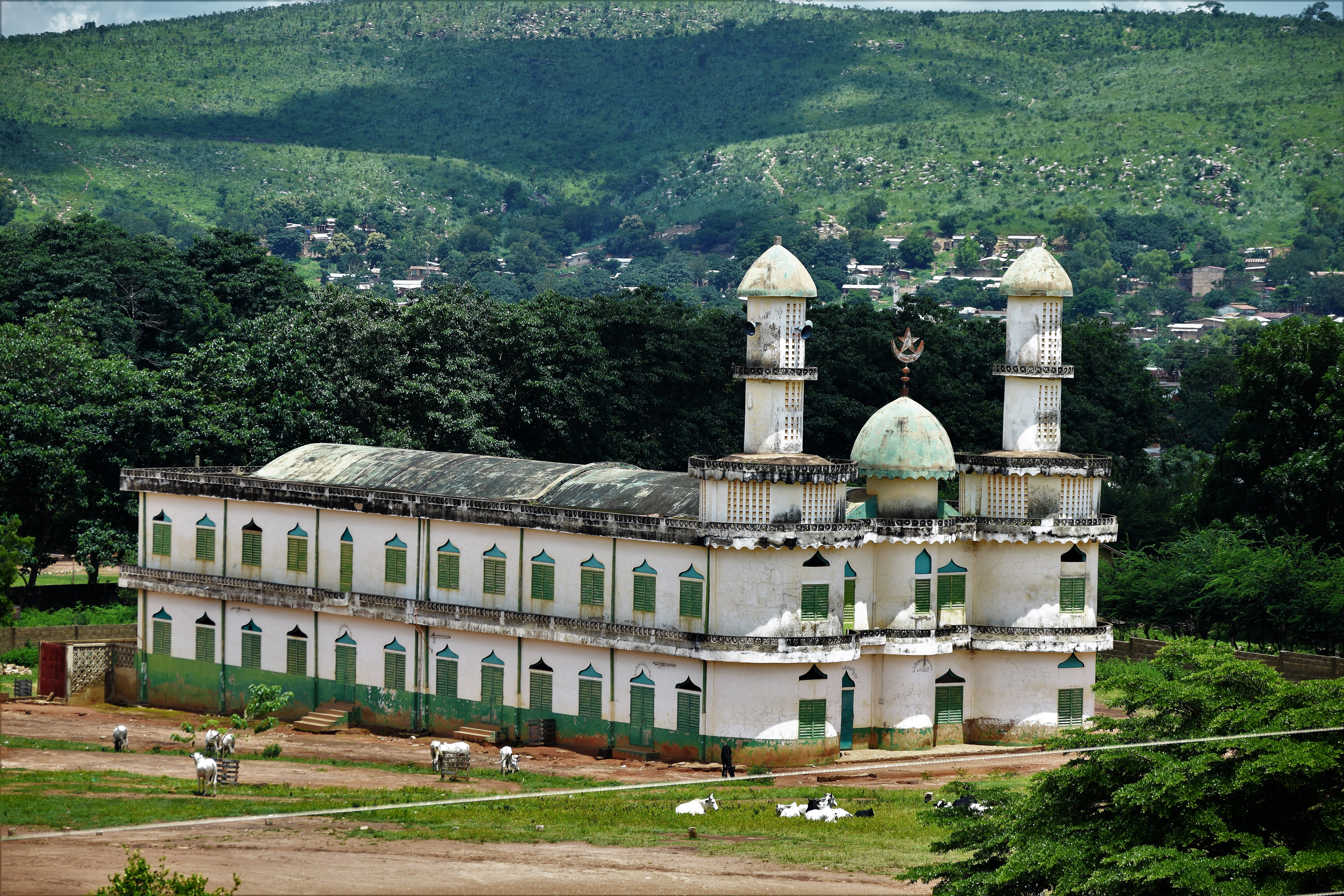 The largest mosque in Natitingou